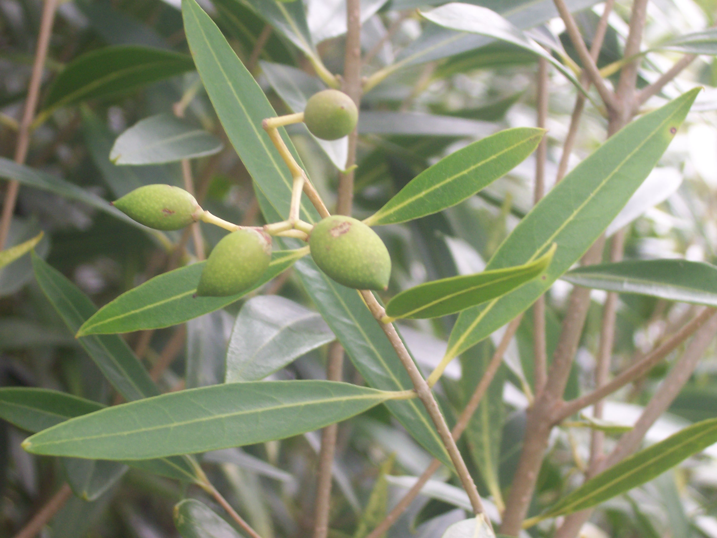 Fruit of Olea lancea on Rodrigues island (Grande Montagne Reserve)